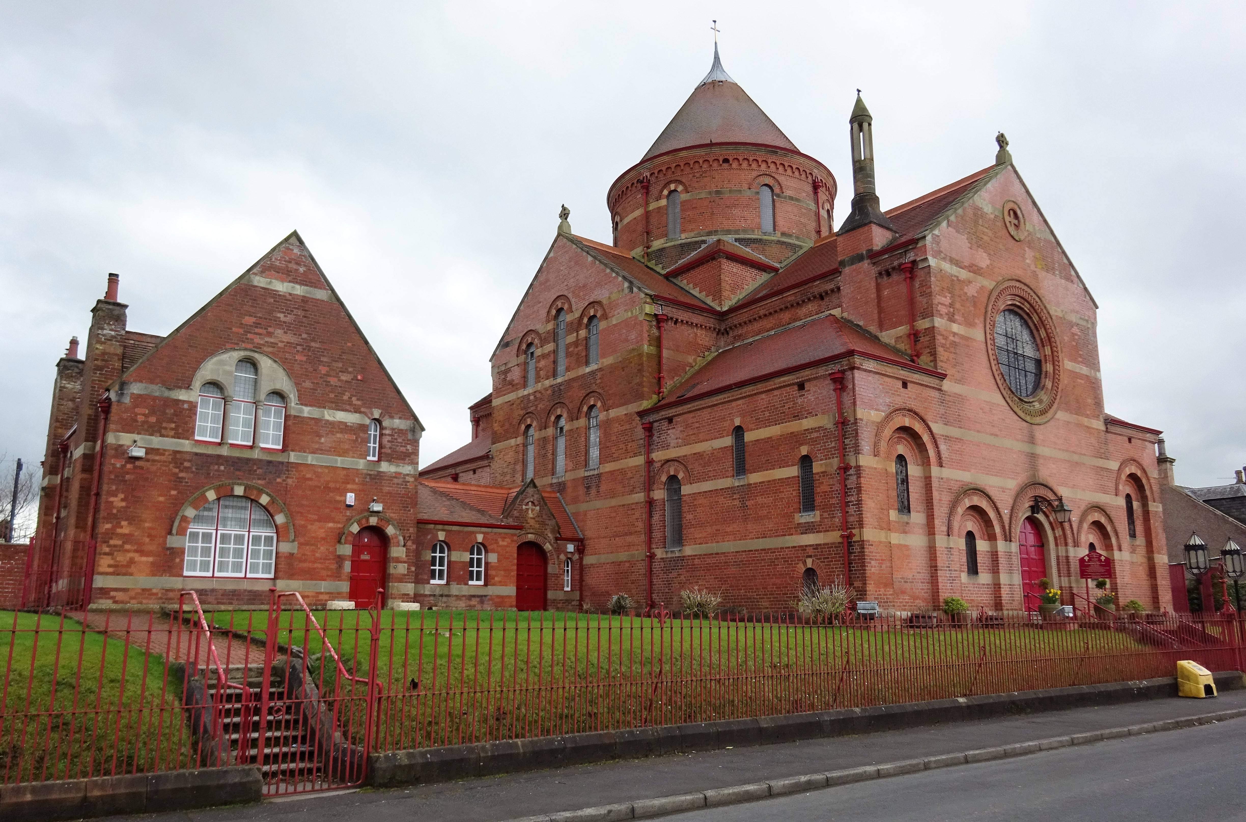 St Sophia's Church complex, Galston East Ayrshire - view from the north-west.